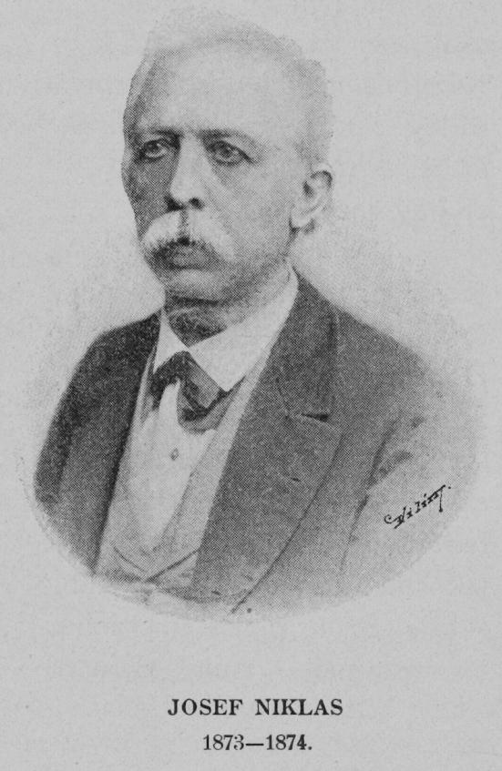 Portrait of Josef Niklas (1817 - 1877), Czech architect. The years below his name refer to his term as rector (president) of Czech Technical University in Prague.